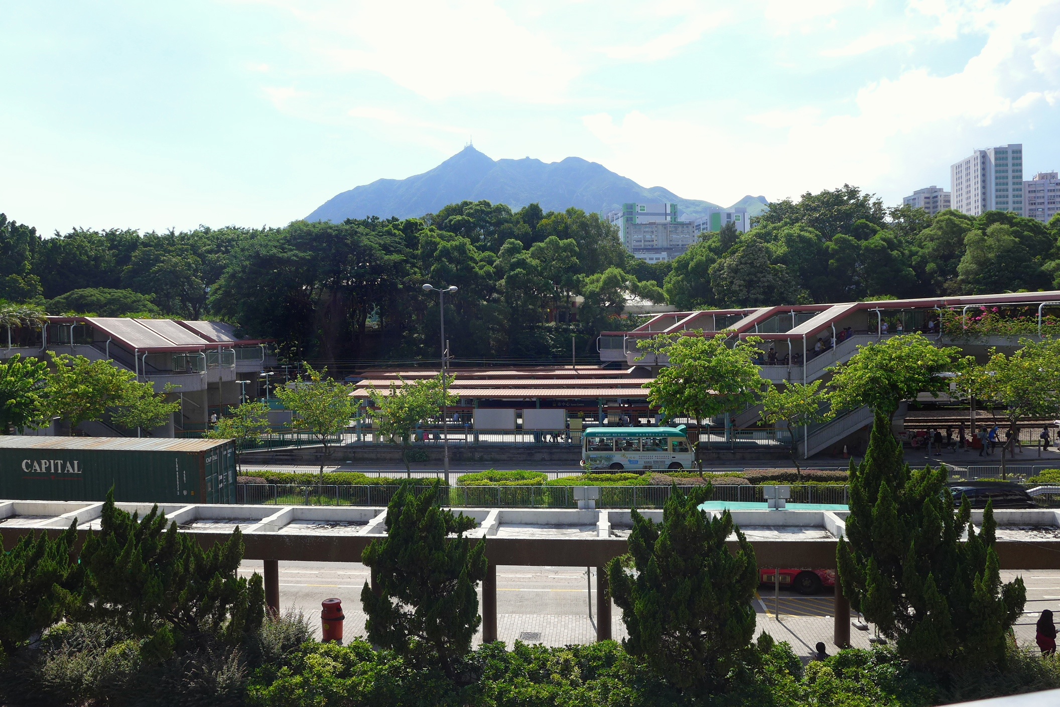 Tuen Mun Town Centre LRT Station